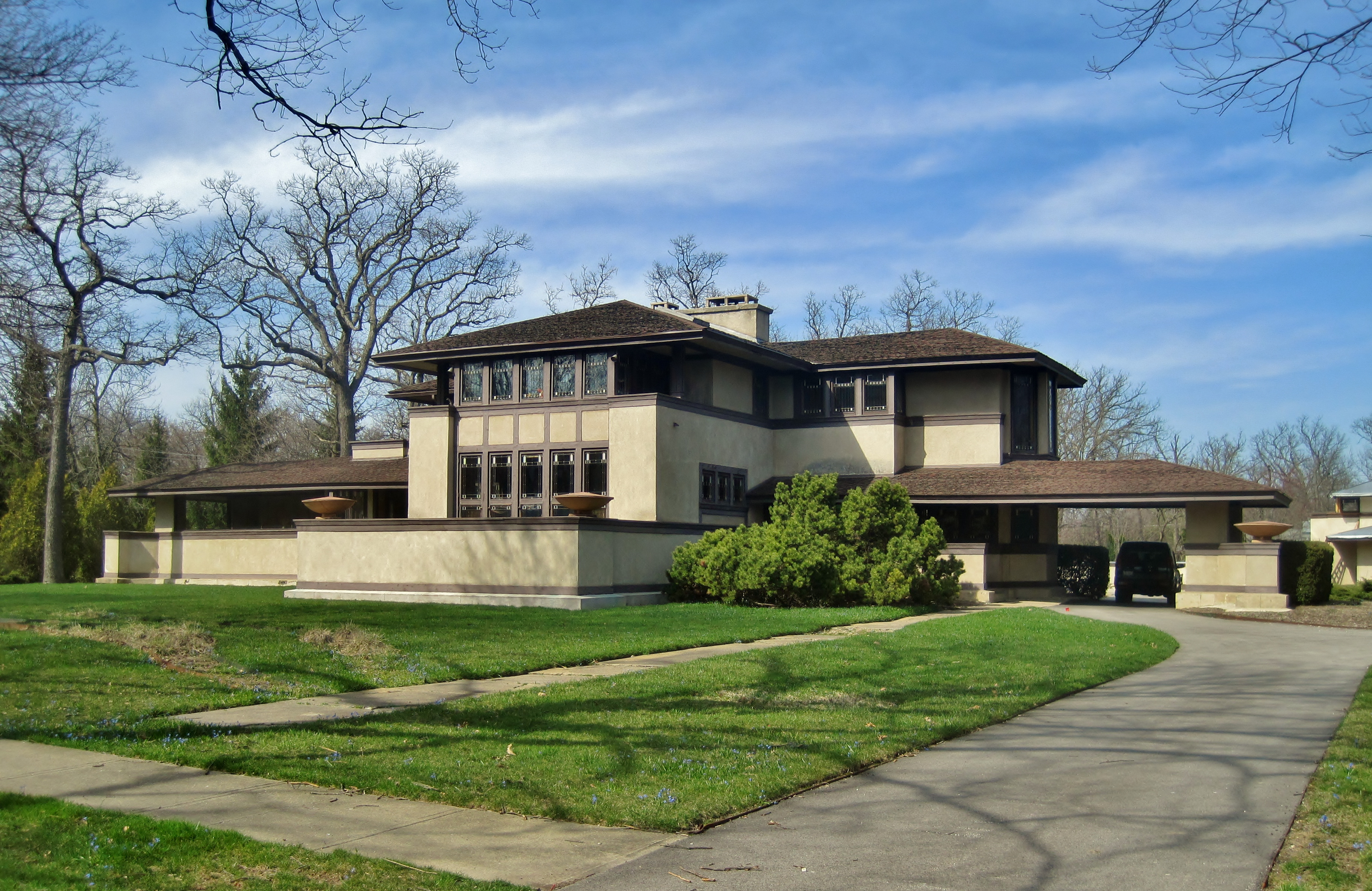 The Ward W. Willits House in Highland Park (1901). Willits was the vice president of the Adams & Westlake Company, which produced brass products. He was probably introduced to Wright through his employee Orlando Giannini, who previously had produced art glass for Wright. Willits and his wife would join Wright on a trip to Japan in 1905. Willits lived here until his death in 1951 at age 92.